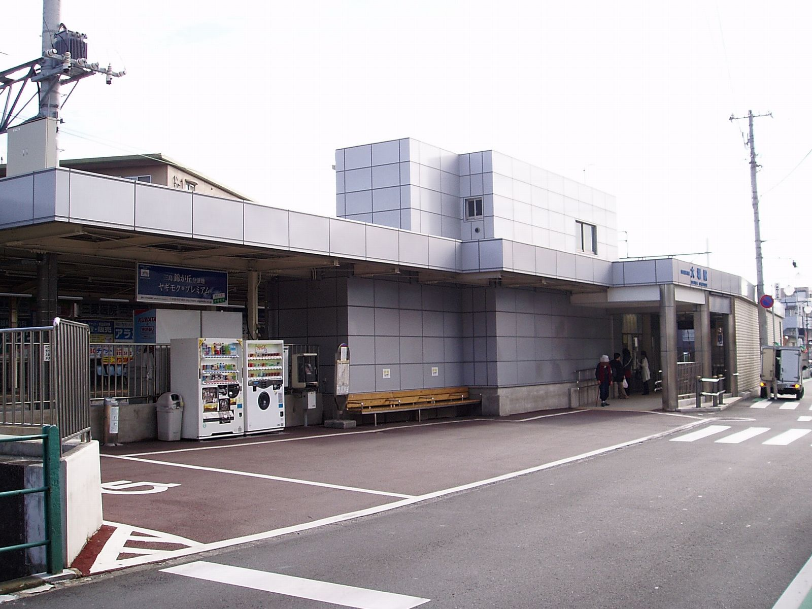 Isuhakone Railway Company, Daiba Sta. 2007.11.26 Photo by Cassiopeia_sweet.